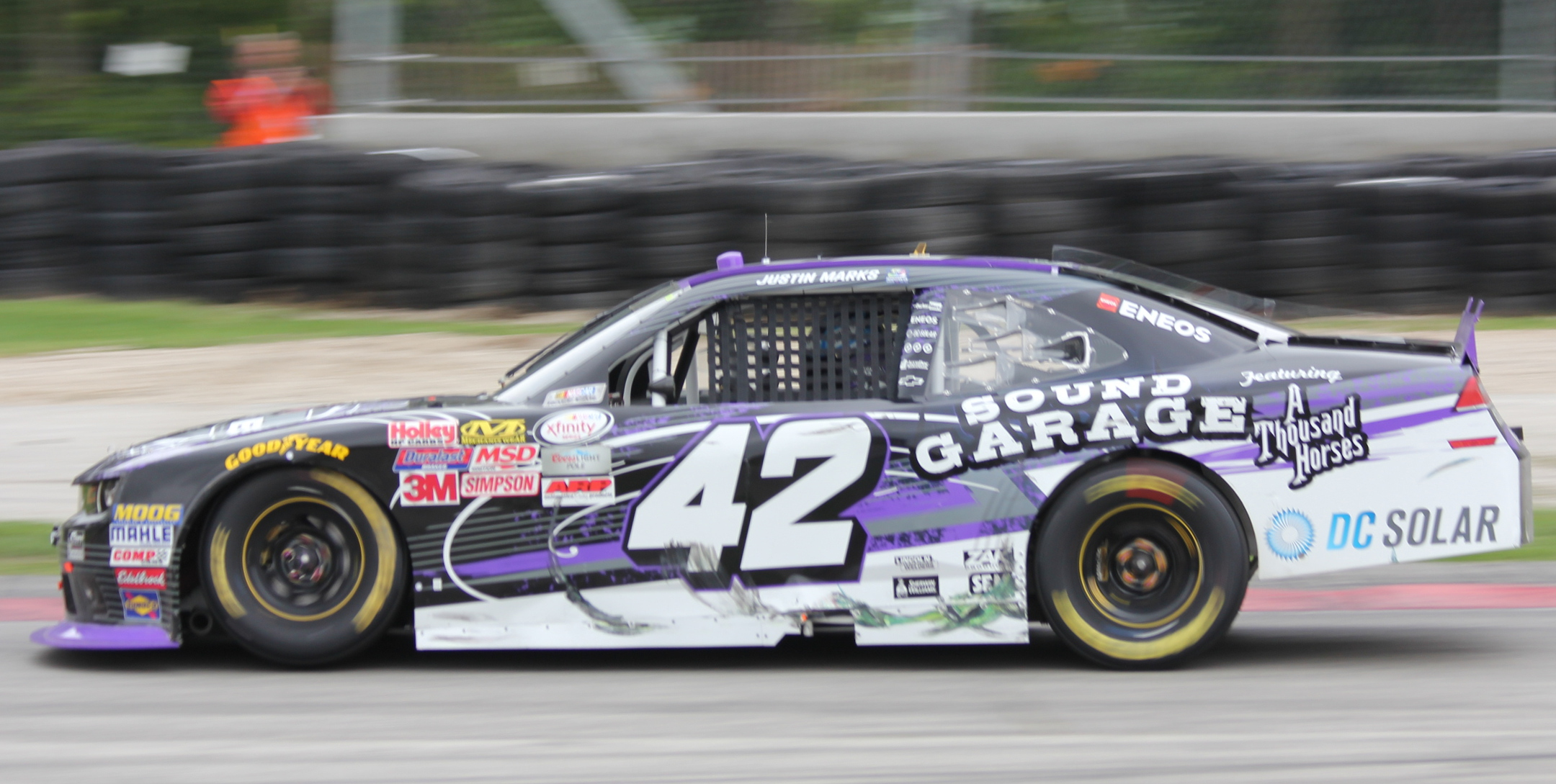 The NASCAR Xfinity Series car of Justin Marks turning left in Turn 6 at Road America.